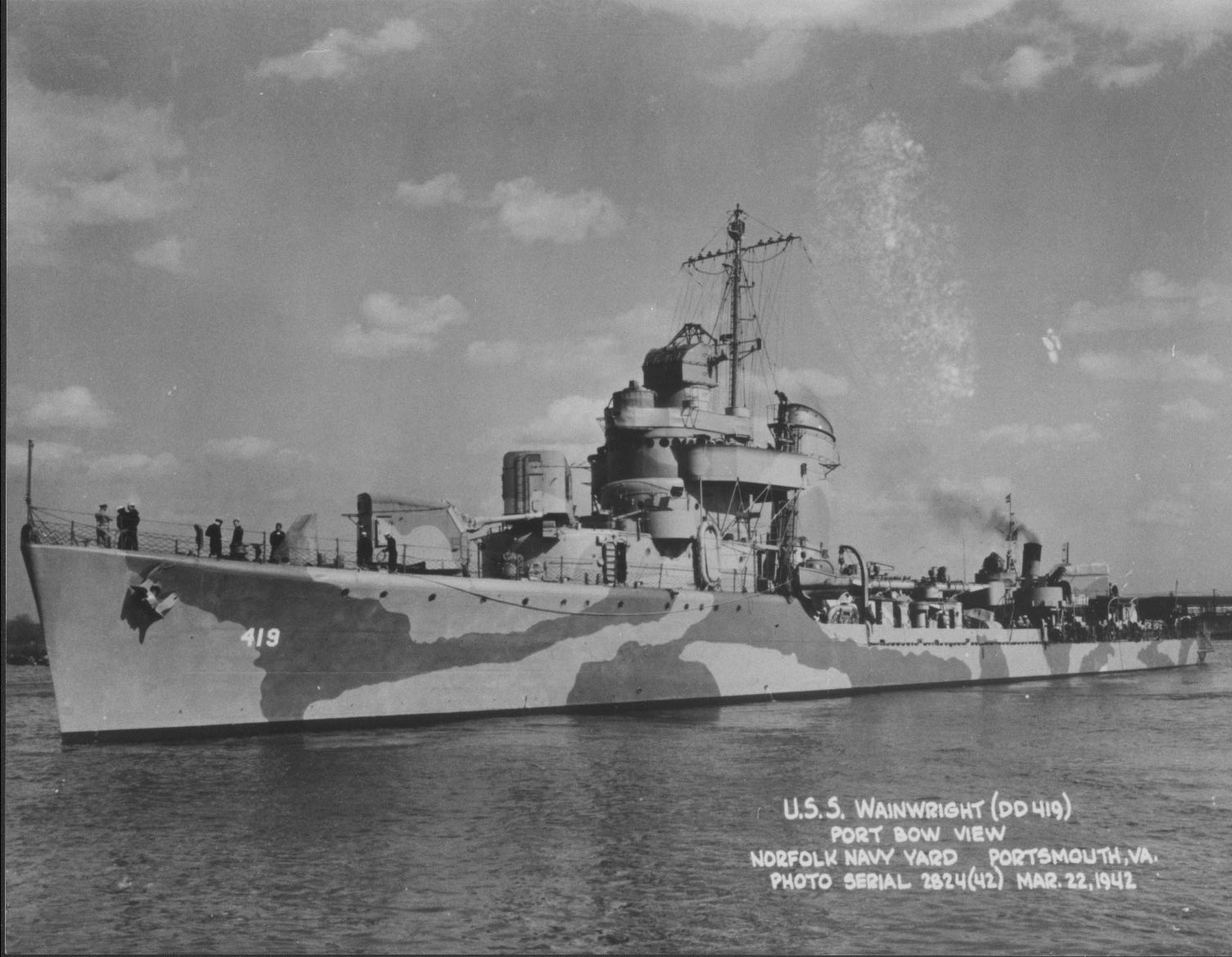 USS Wainwright (DD-419) at Norfolk Navy Yarden:22 March en:1942